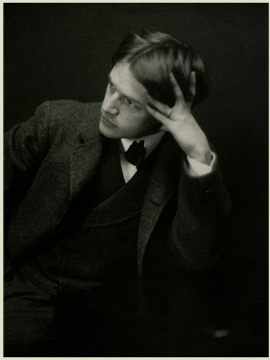 Zaida_Ben-Yusuf: Everett Shinn (1876-1953), platinum print 1901